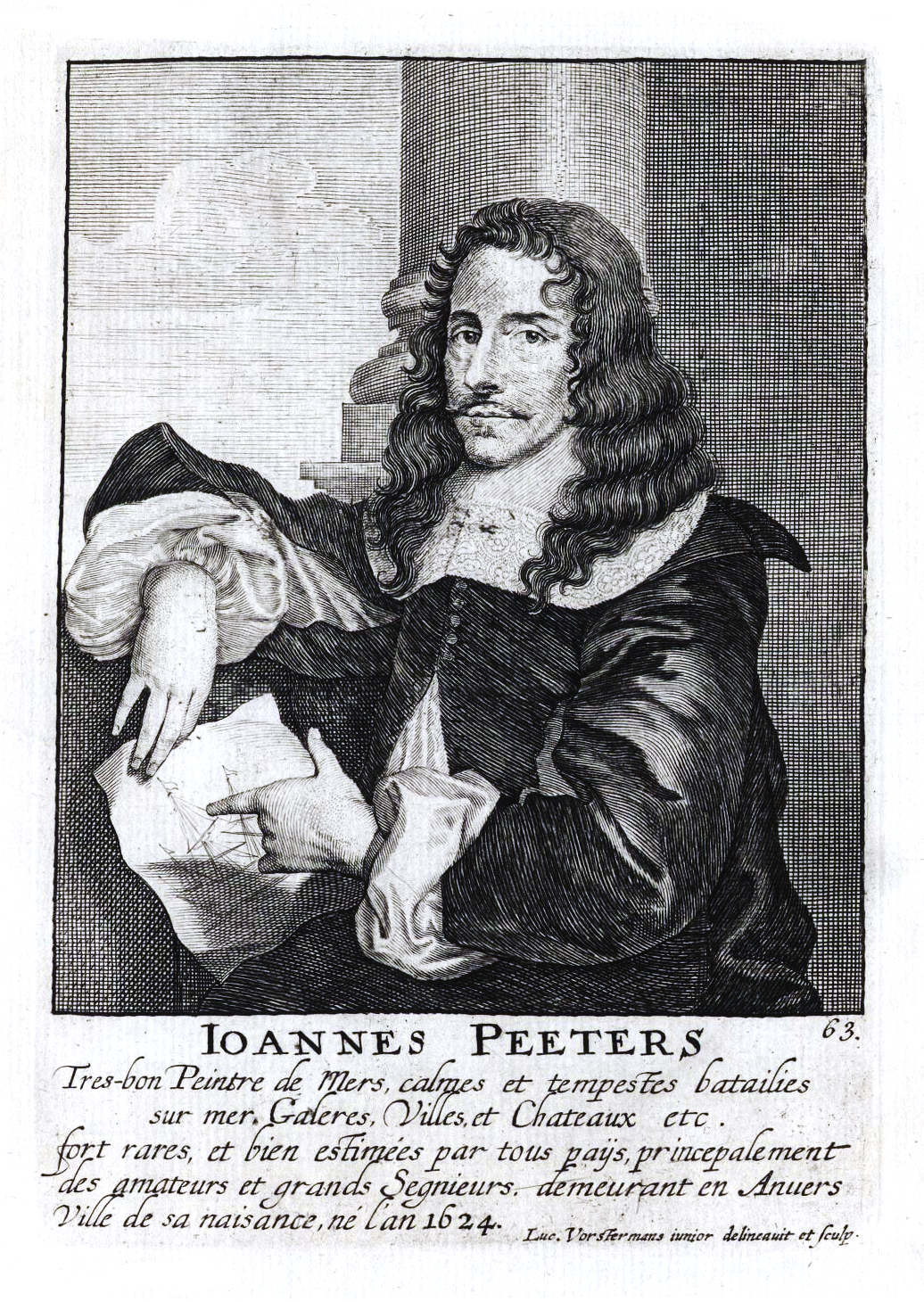 Jan Peeters (I) (Antwerp, 1624-1677), by Lucas Vorsterman (II).